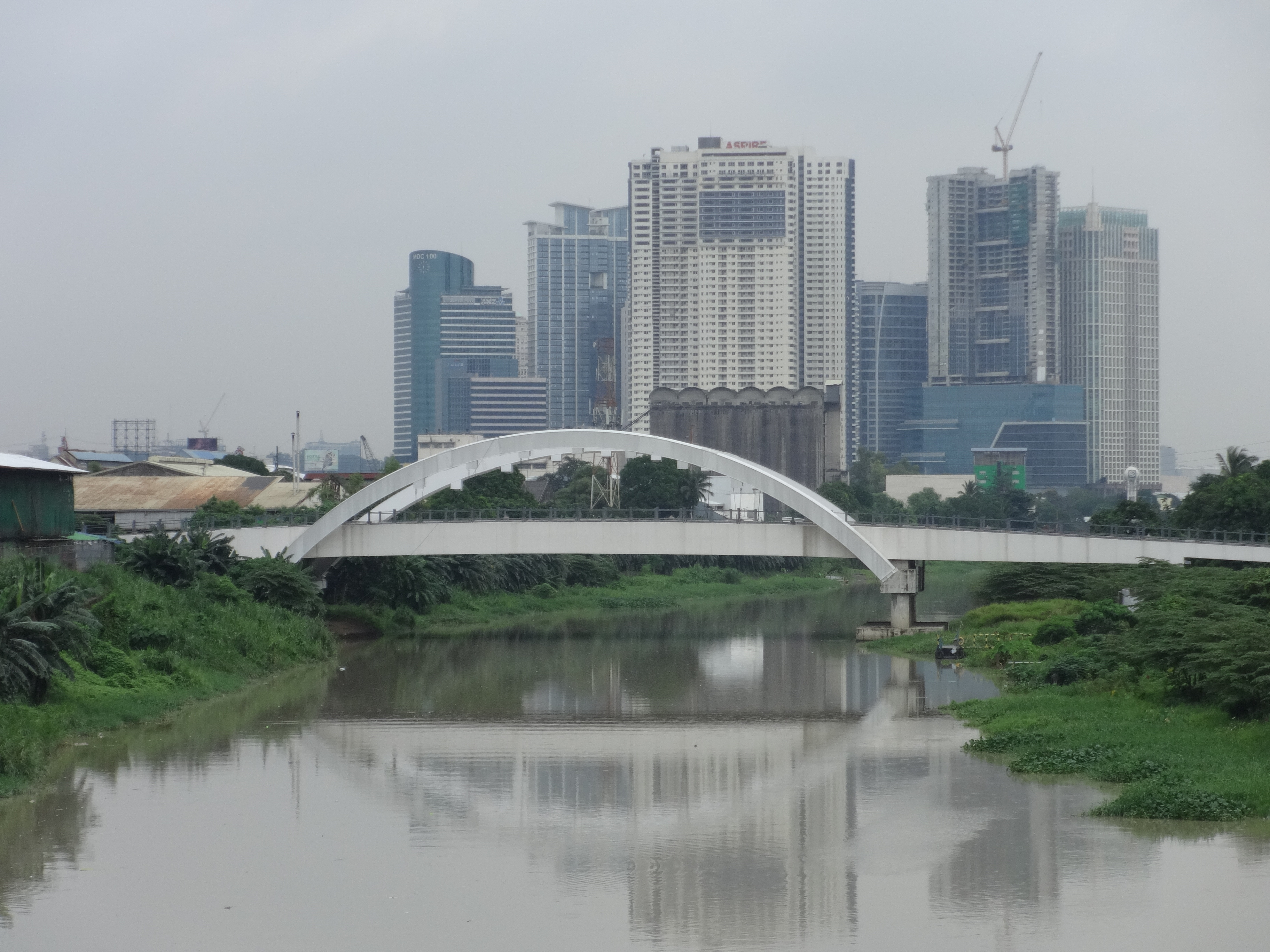 Marikina River with Eastwood overlooking in Bagumbayan, Quezon City